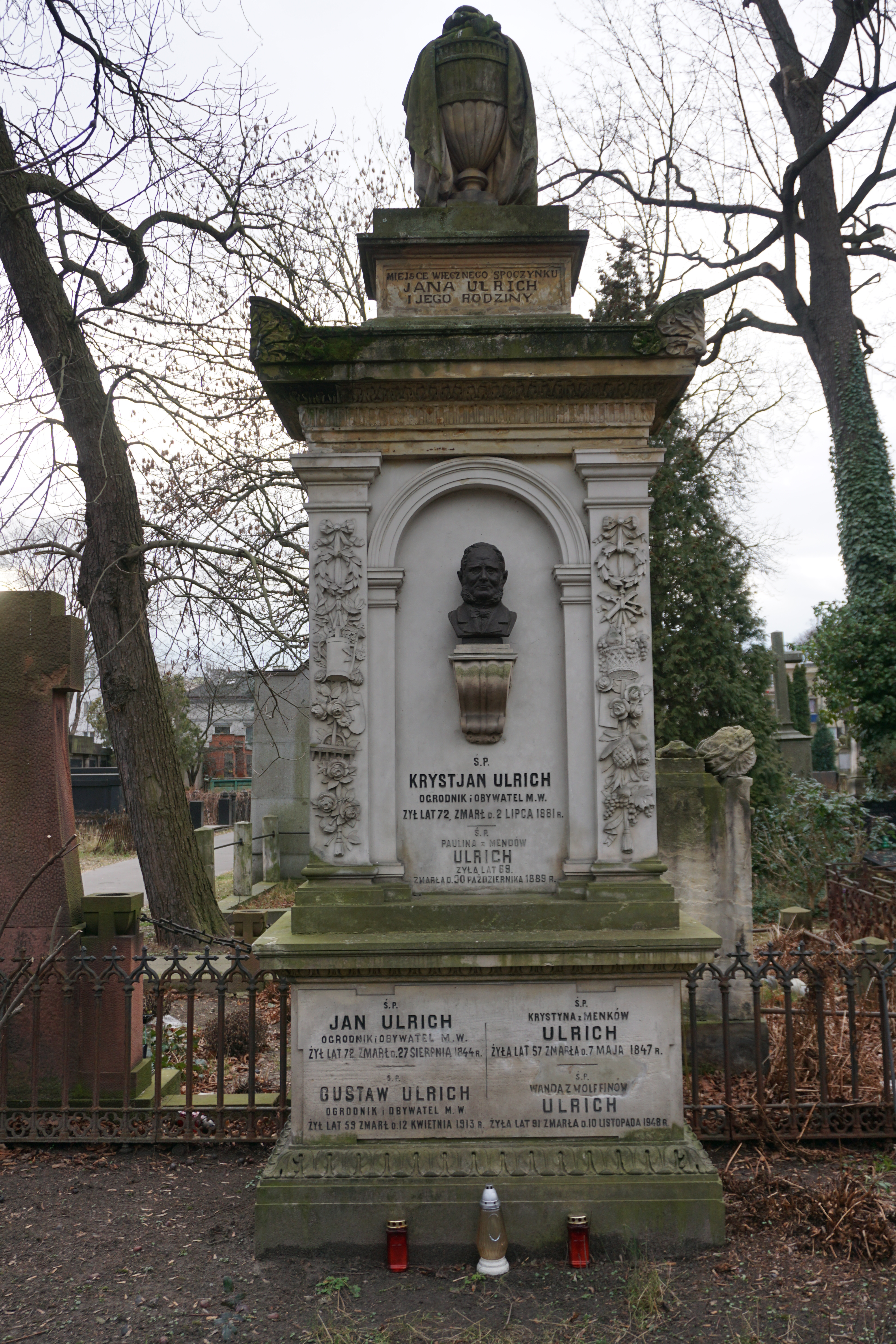 The grave of Johann Ulrich at the Evangelical-Augsburg Cemetery in Warsaw (avenue 18, grave 38)